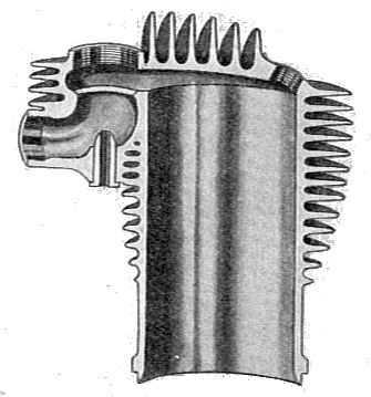 Air-cooled monobloc cylinder, section (Manual of Driving and Maintenance).jpg